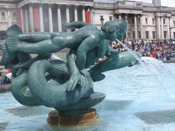 Trafalgar Square, London, England. Intended for use on Trafalgar Square and other London-related or fountain-related articles